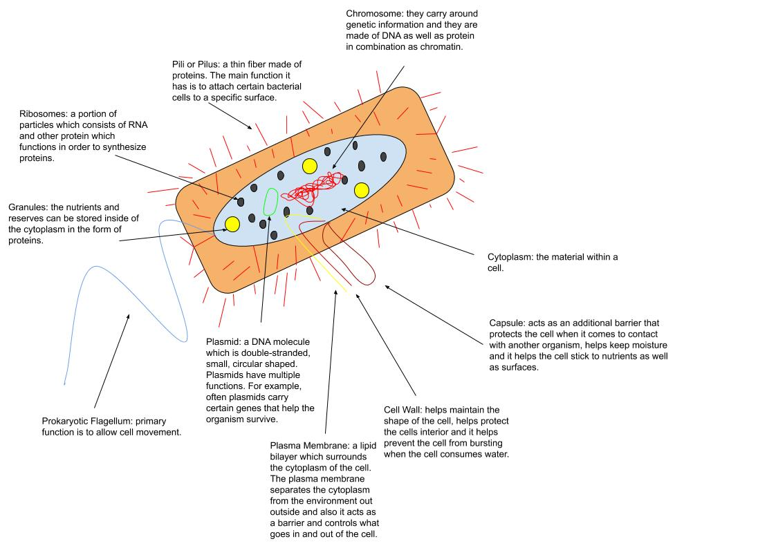 The diagram shows the genetic material inside a prokaryotic cell.